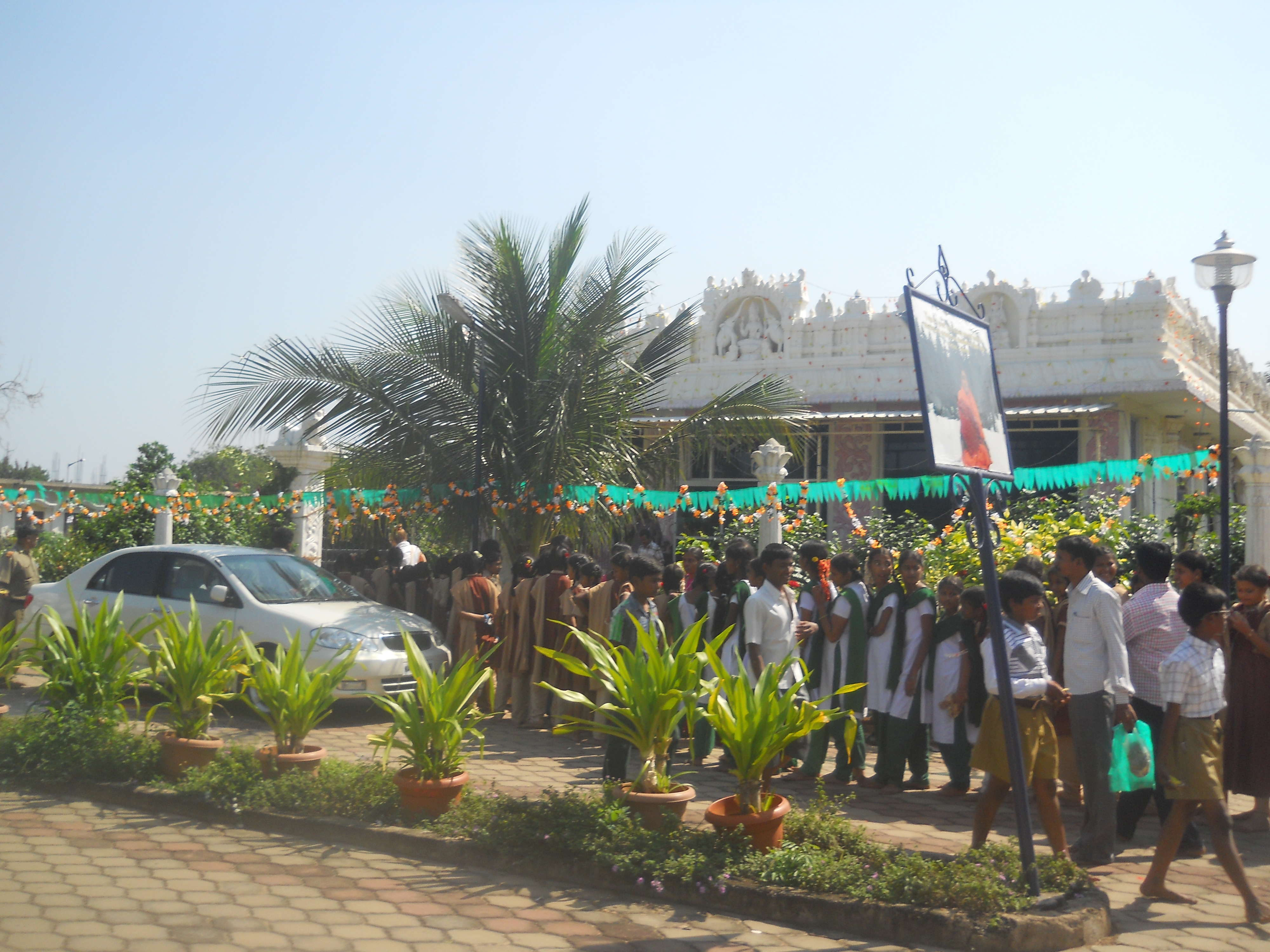 Karunamayi Sri Vijayeswari Devi Asramam at Penchalakona